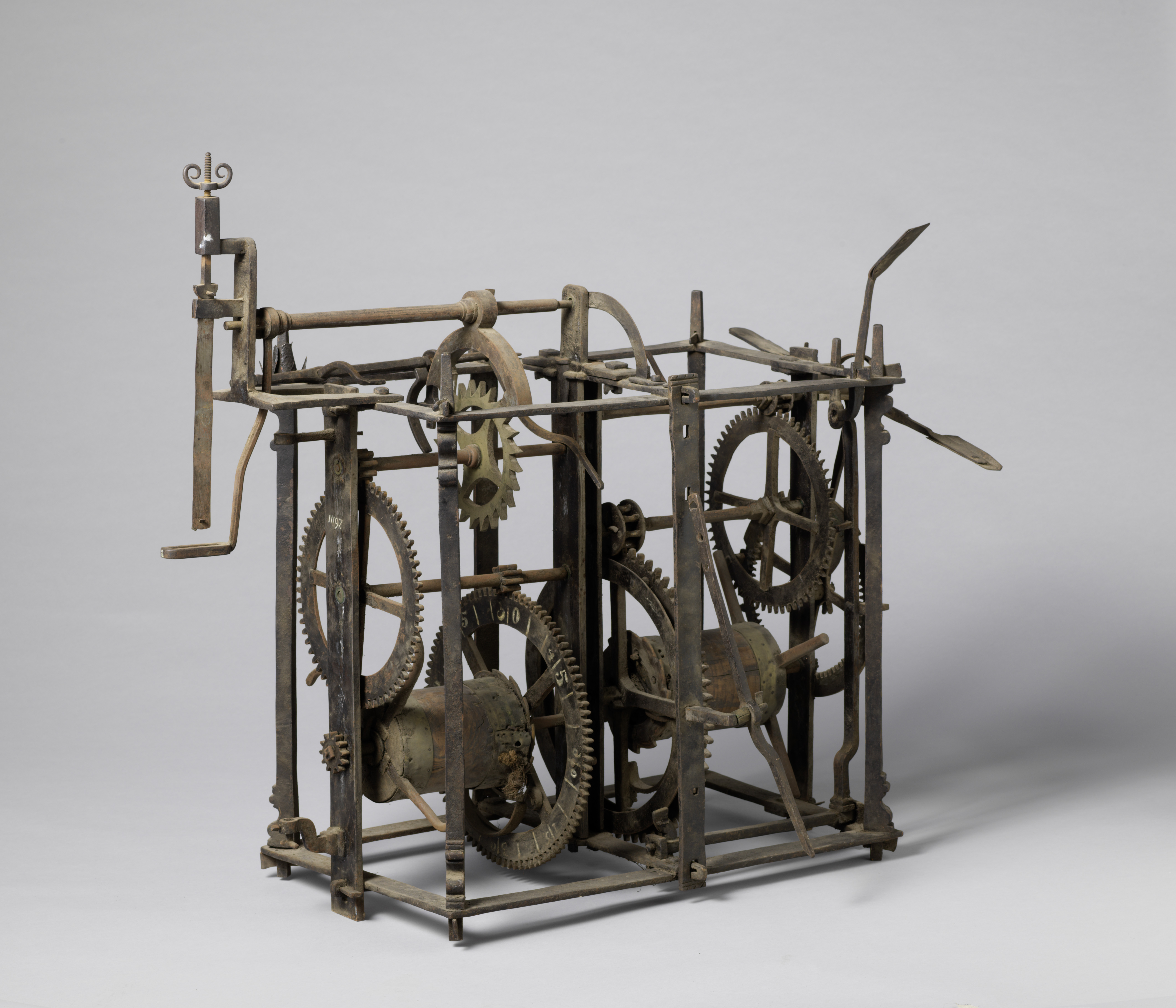 Uurwerk met losse hamer, behorende bij een bronzen klok, afkomstig uit de toren van de afgebroken Waterpoort te Gorinchem. De klok is gedateerd: 1581. Zie ook onderdelen: BK-NM-11197-1 en BK-NM-11197-2 (bulk). datum: 1581, Opnamedatum: 2017-10-11